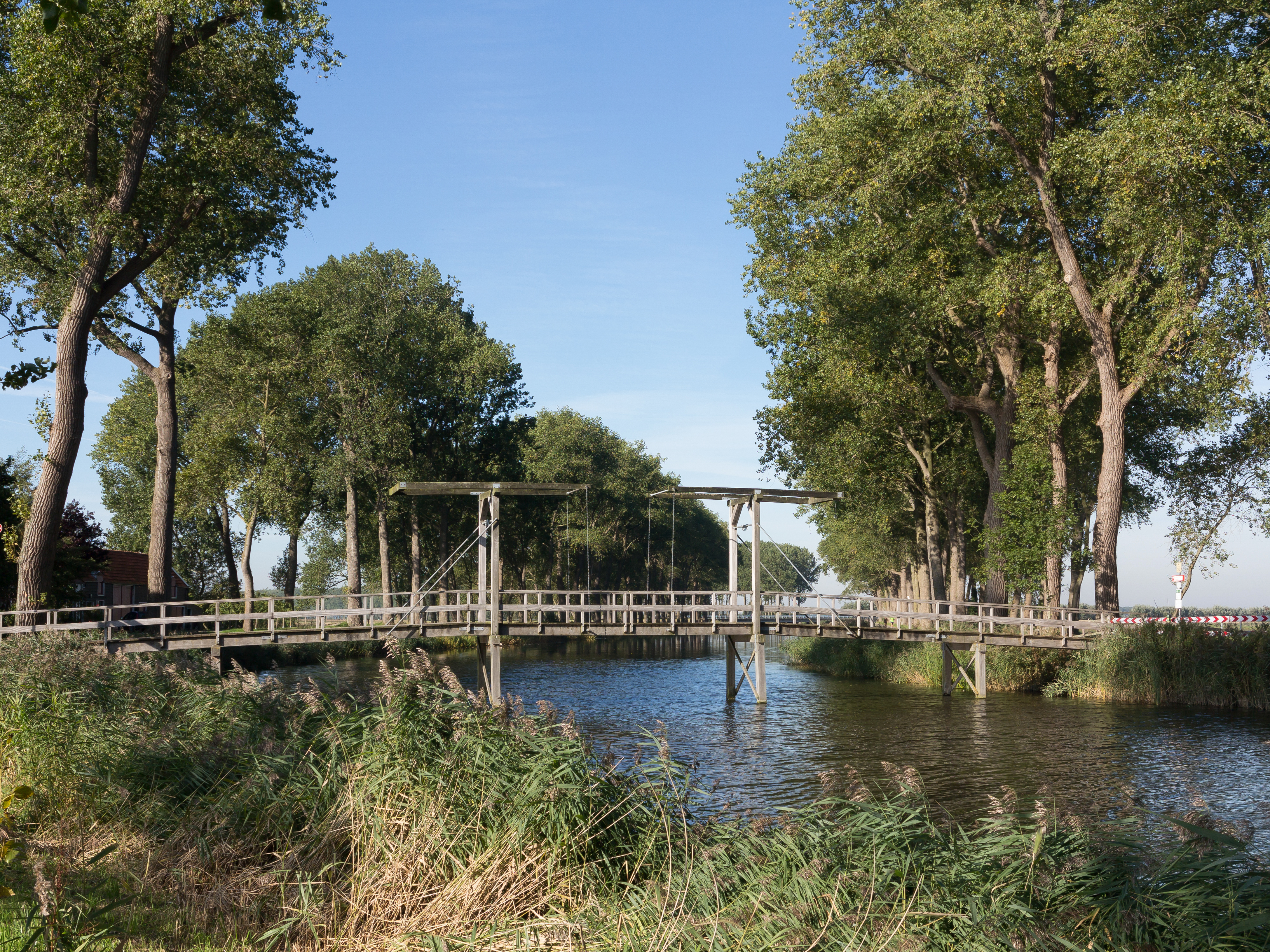 Sluis, drawing bridge